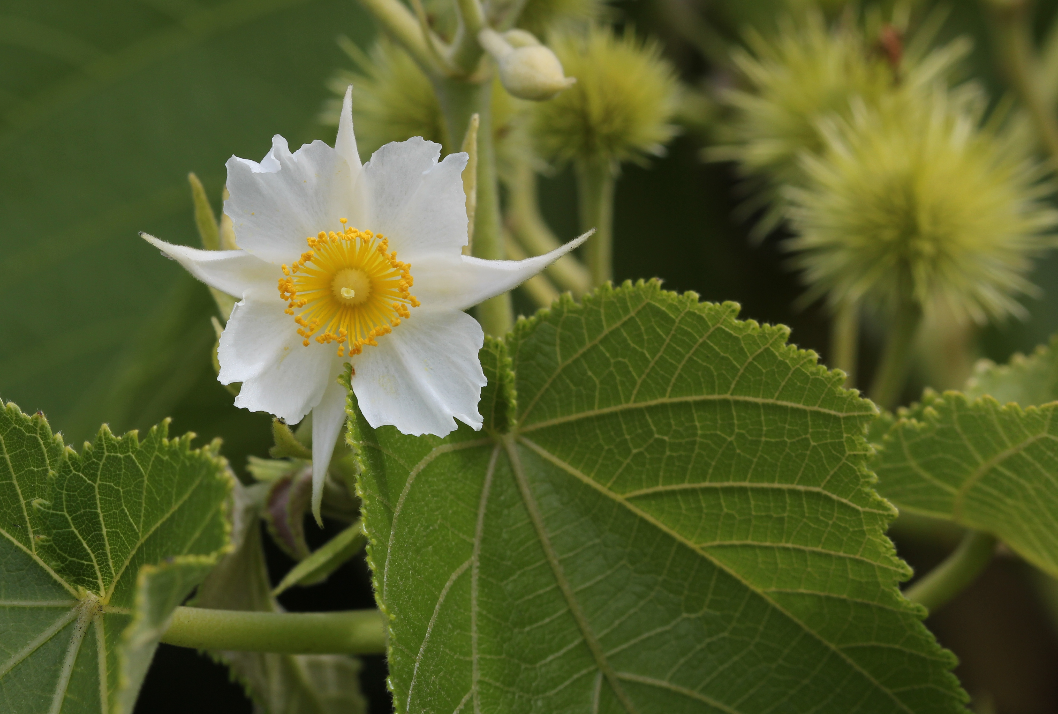 Whau flower (Entelea arborescens). Photo taken in Auckland, New Zealand.